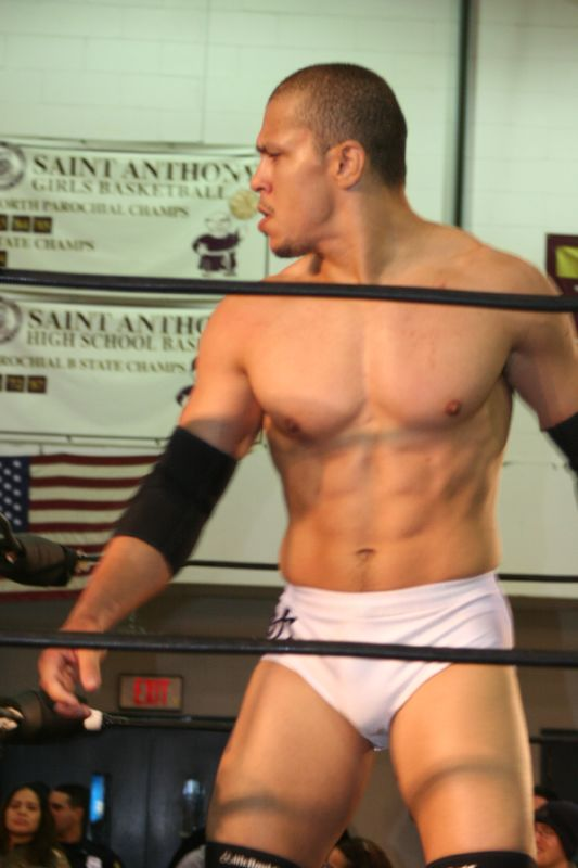 Professional wrestler Lo Ki (real name Brandon Silvestry) at a Jersey All Pro Wrestling show in November 2008.